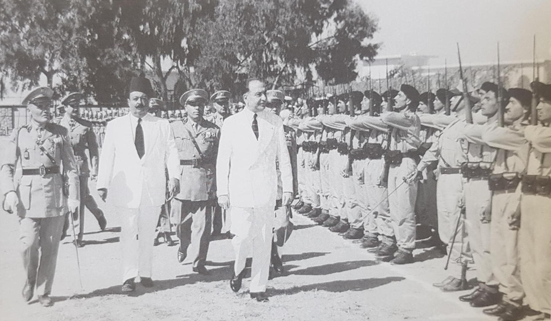 Lebanese President Fouad Chehab and Defense Minister Emir Majid Arslan review a division of the Lebanese army.